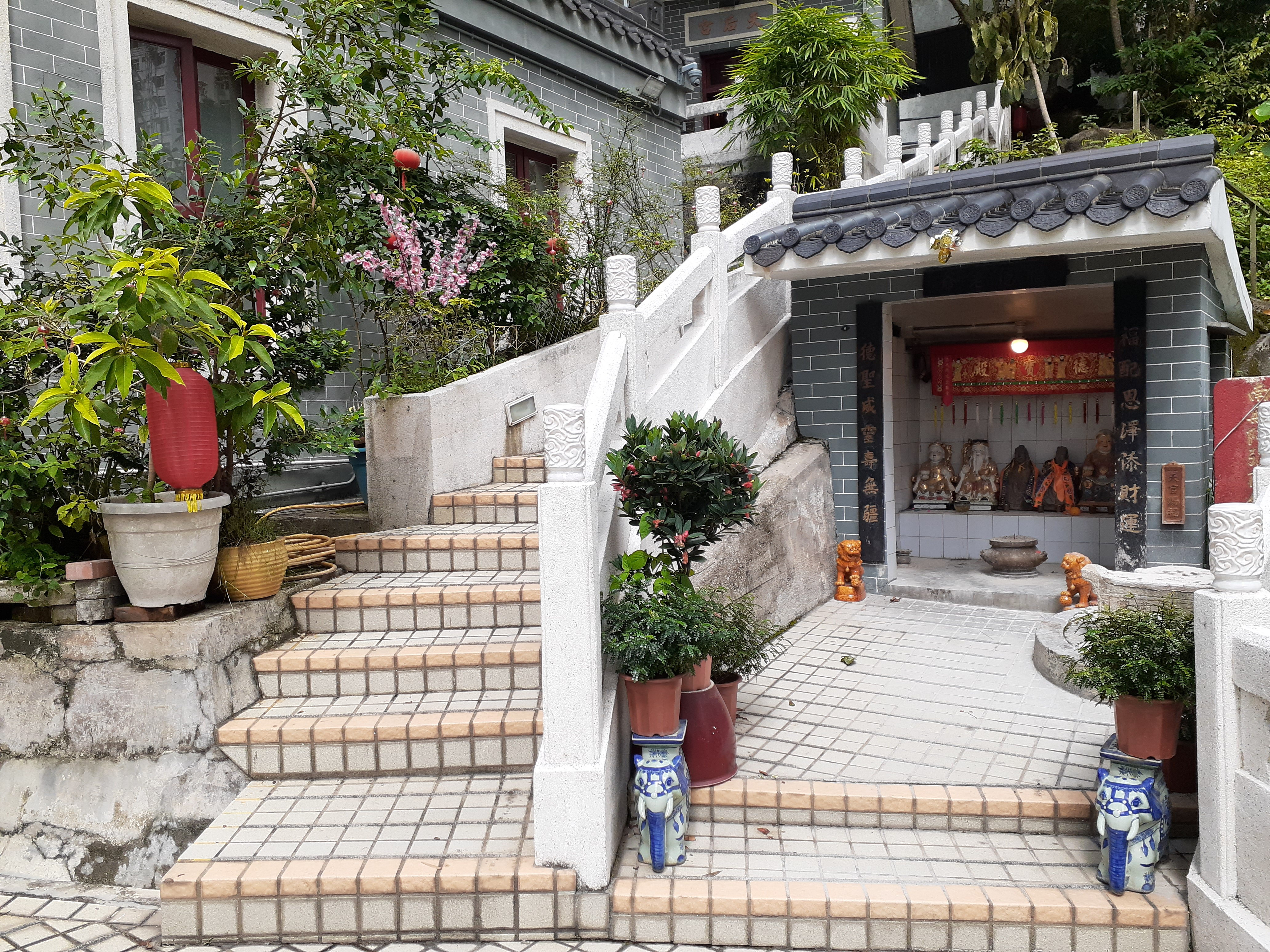 HK HV 跑馬地 Happy Valley 雲地利道 Ventis Road 北帝譚公廟 Tam Kung Temple in July 2020